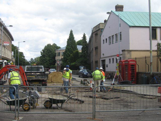 Sunday Overtime - Emmanuel Street